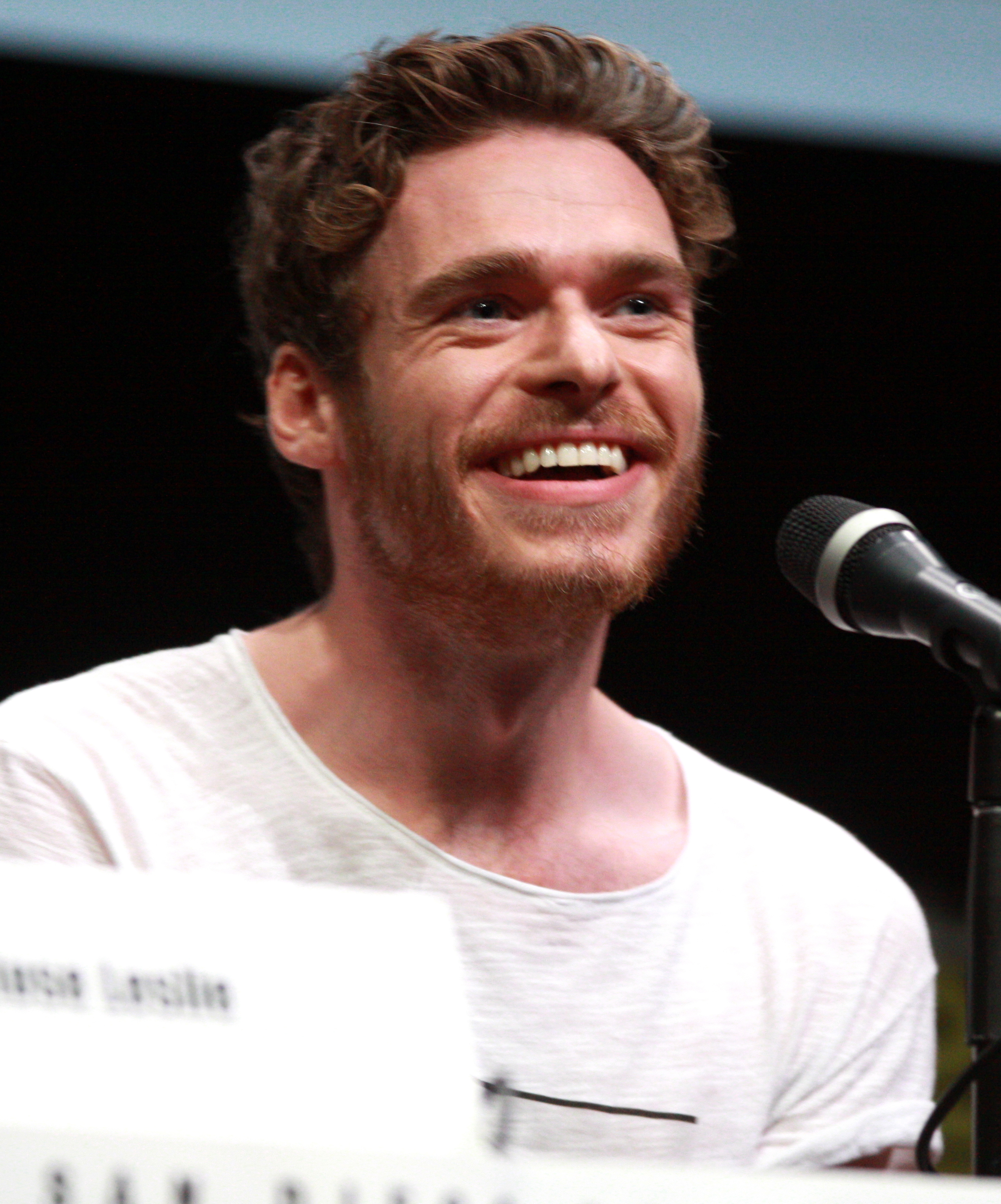 Richard Madden at the 2013 San Diego Comic Con International in San Diego, California.